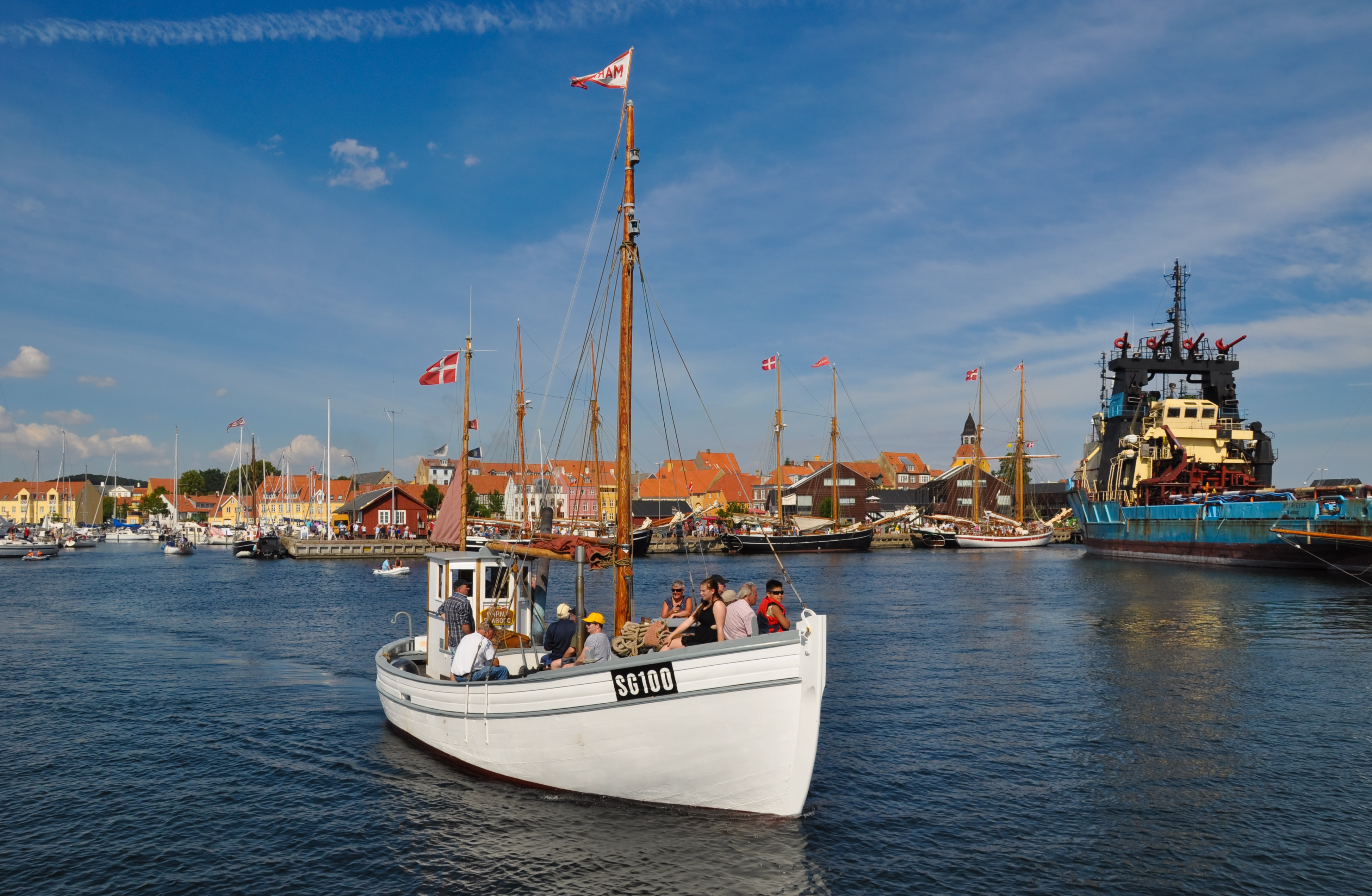 The fishing vessel Marna SG100, with sightseeing passengers onboard, sailing from Faaborg Harbour (July 2014).